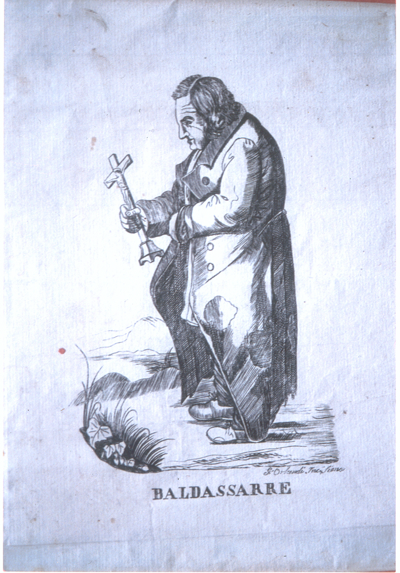 Baldassarre Audiberti